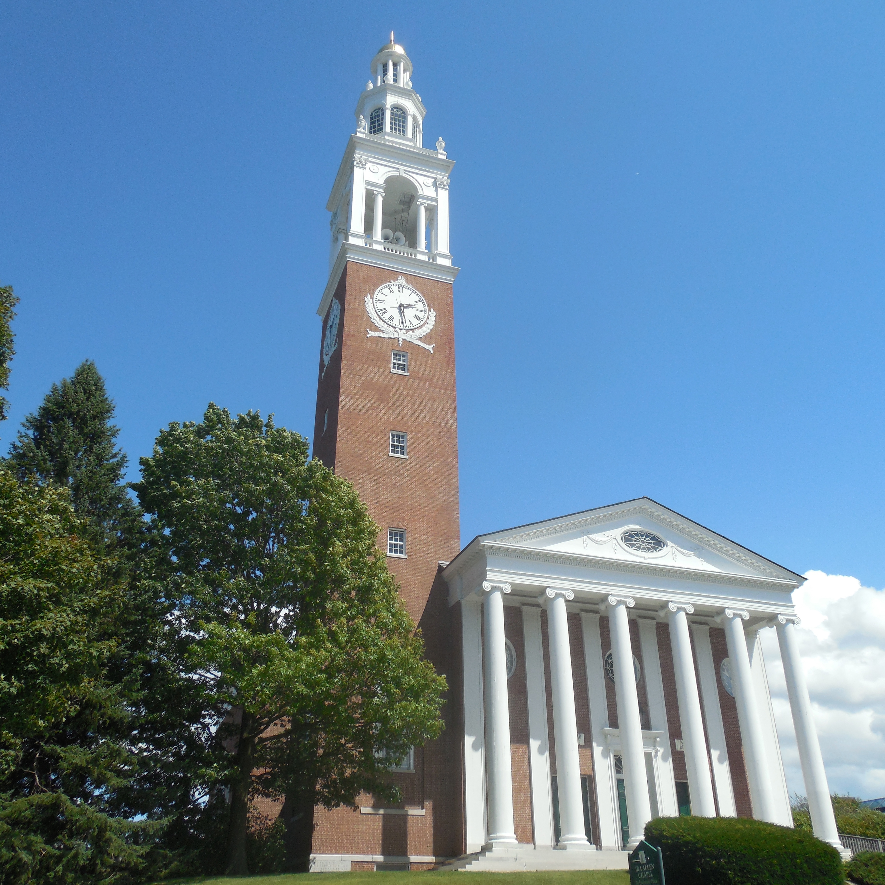 Front view of Ira Allen Chapel, University of Vermont: 1 Aug 2015 (Architects: McKim, Mead & White)